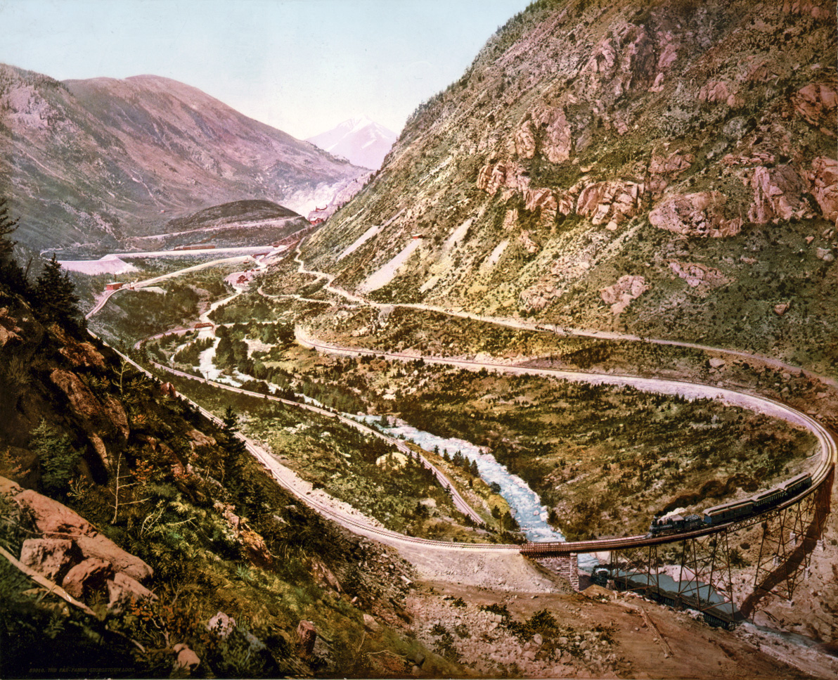 The far-famed Georgetown loop of the Colorado Central Railroad